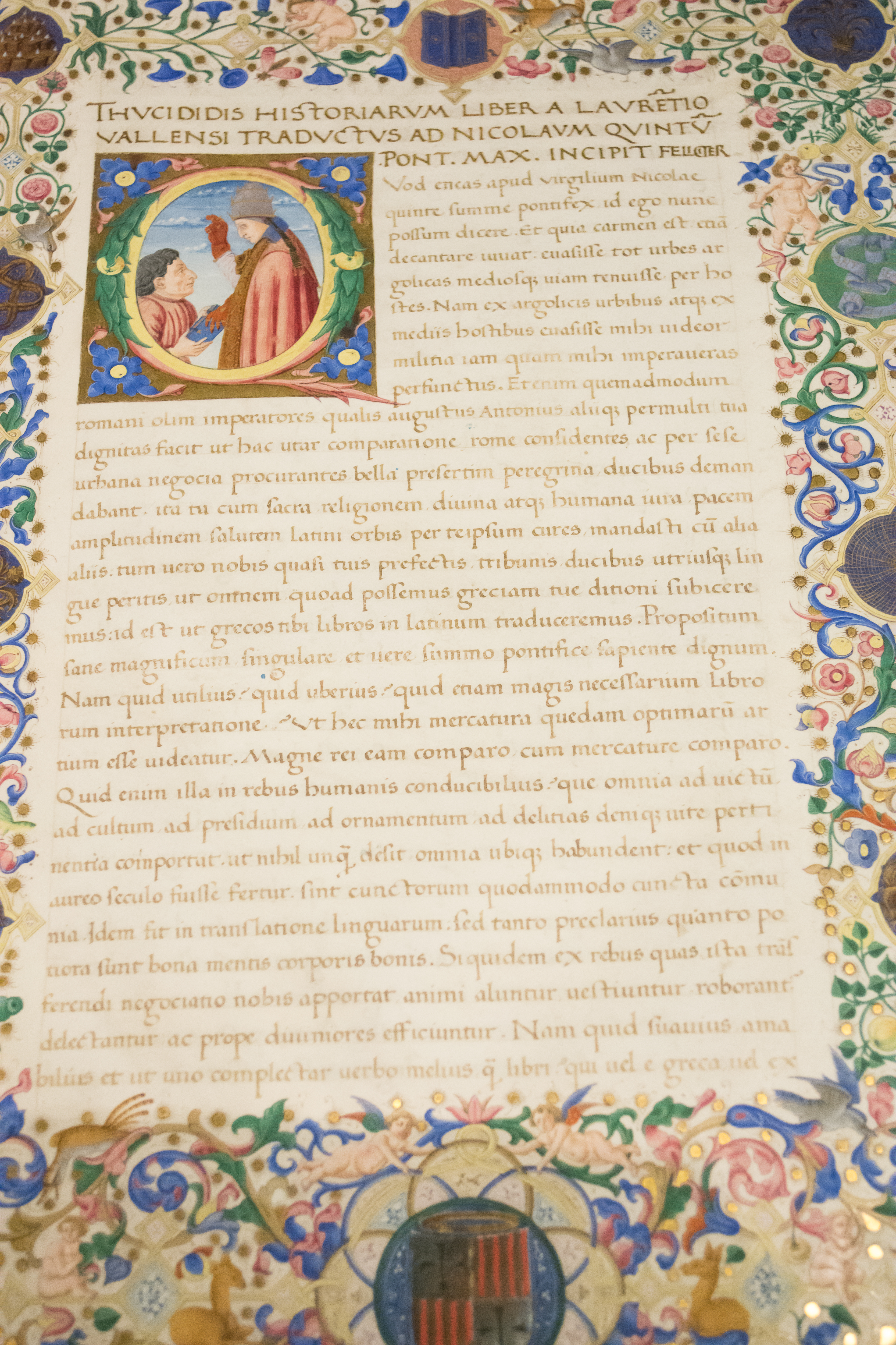 This manuscript of the History of the Peloponnesian War by the historian Tucídides, is the Latin version translated by Lorenzo Valla and dedicated to Pope Nicholas V. Decoration: the miniatures are attributed to Francesco di Antonio del Chierico (1433-1484). Orla and decoration of Florentine school. In the frontispiece, orles with the emblems of the king. In the lower part, shield of Calabria. Bookbinding: parchment. Loin decorated with feathers with a a candelieri style motif, golden edges. Provenance: Italy (1440-1499). 218 pages. 369 x 257 mm, binding 380 x 270 mm. Collection Duke of Calabria. University of Valencia. Historical Library. BH Ms. 392.